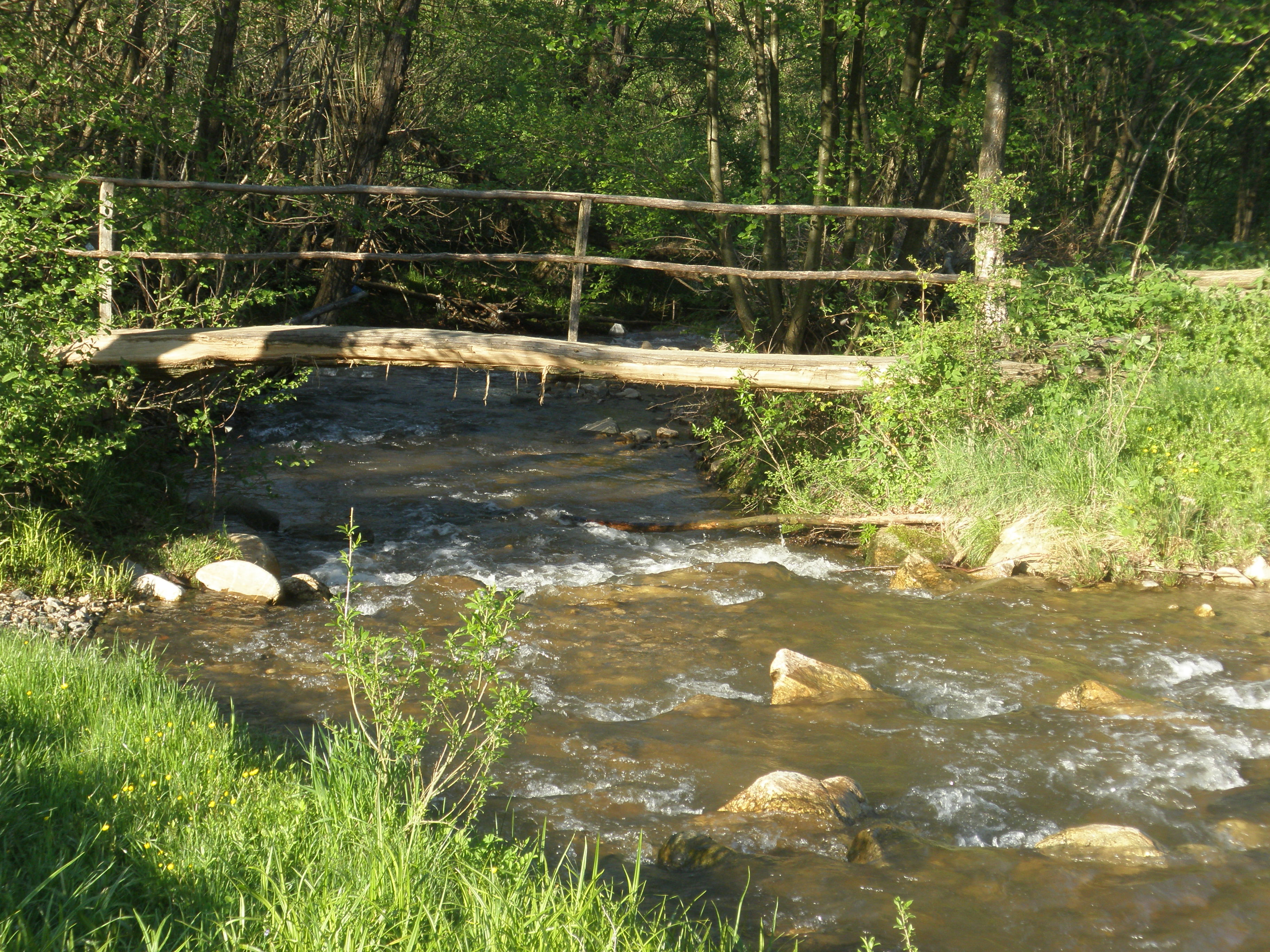 Mijovska reka kod zaseoka Pilistarci - Mijovce.